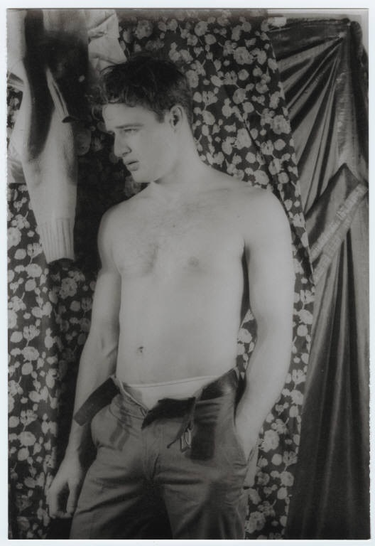 Portrait of Marlon Brando, in A streetcar named desire